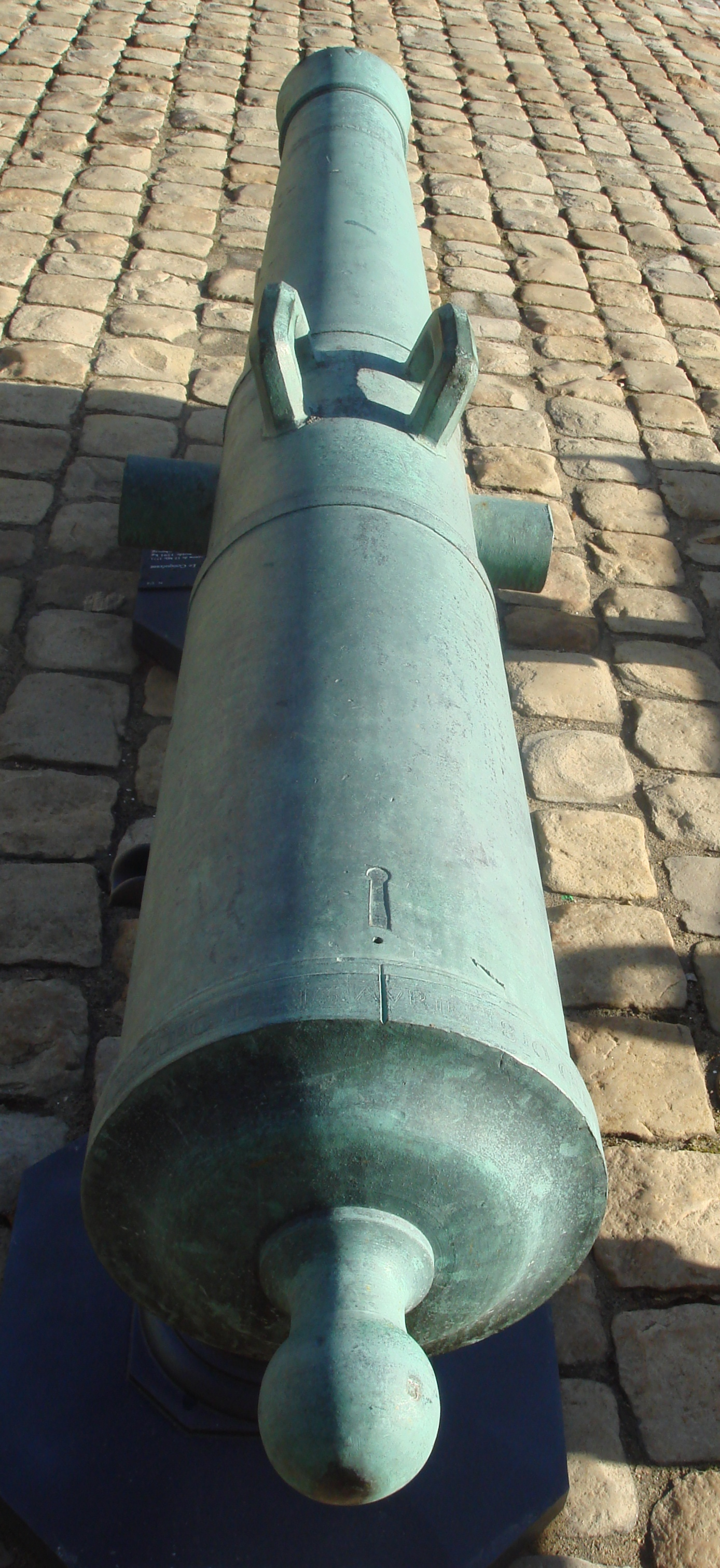 Canon_lourd_de_12_Gribeauval_Le_Conquerant